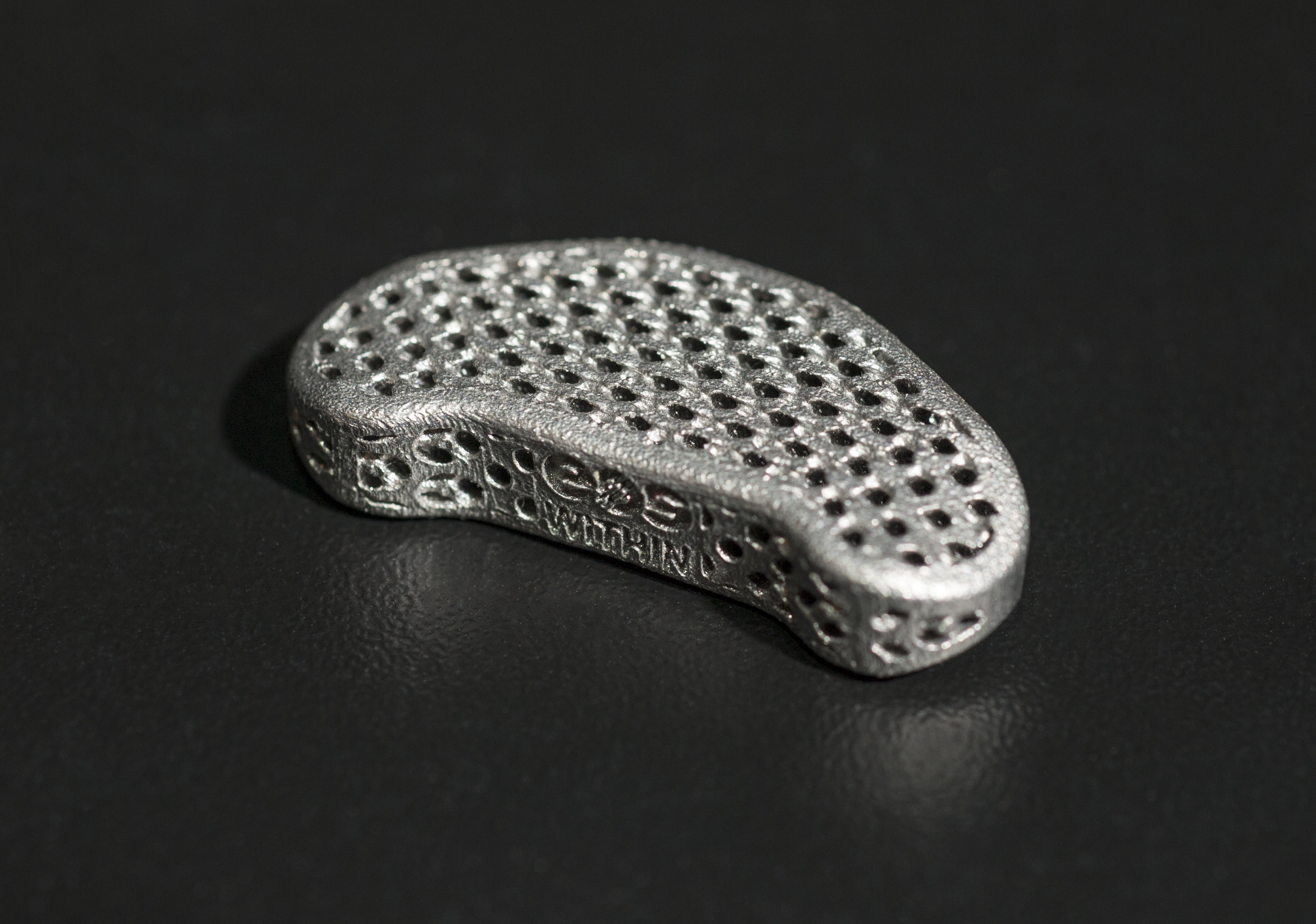 3D-printed titanium spinal disc replacement, similar to those used to treat degenerative disc disease. This photo is free of all copyright restrictions and available for use and redistribution without permission. Credit to the U.S. Food and Drug Administration is appreciated but not required. For more privacy and use information visit: FDA photo by Michael J. Ermarth